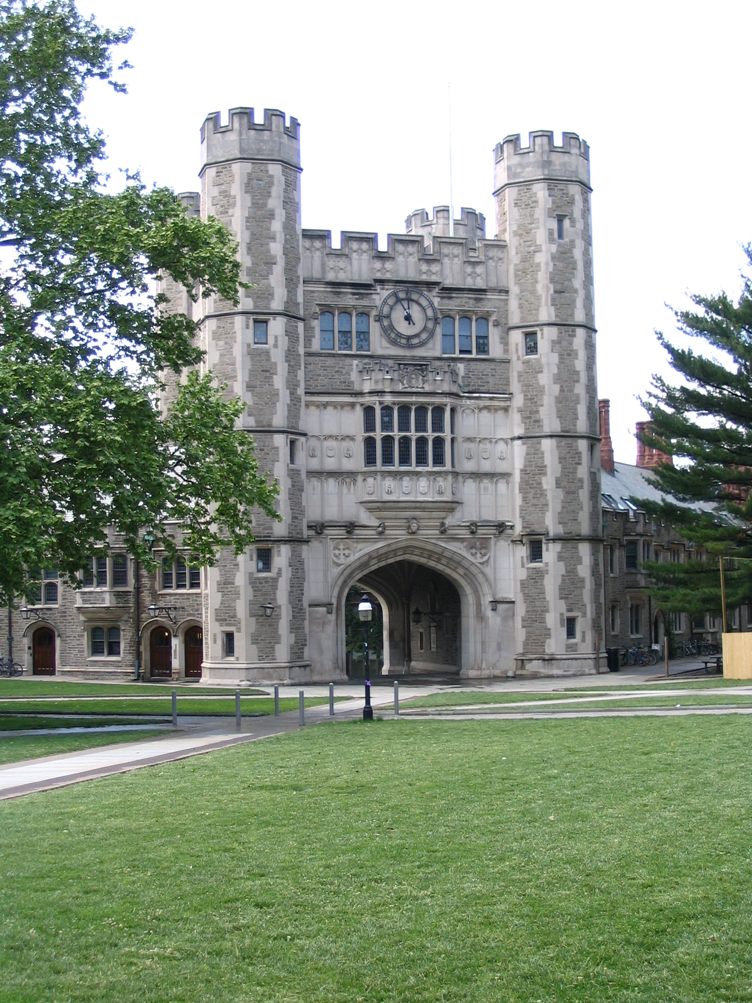 Blair Arch seen from the north.